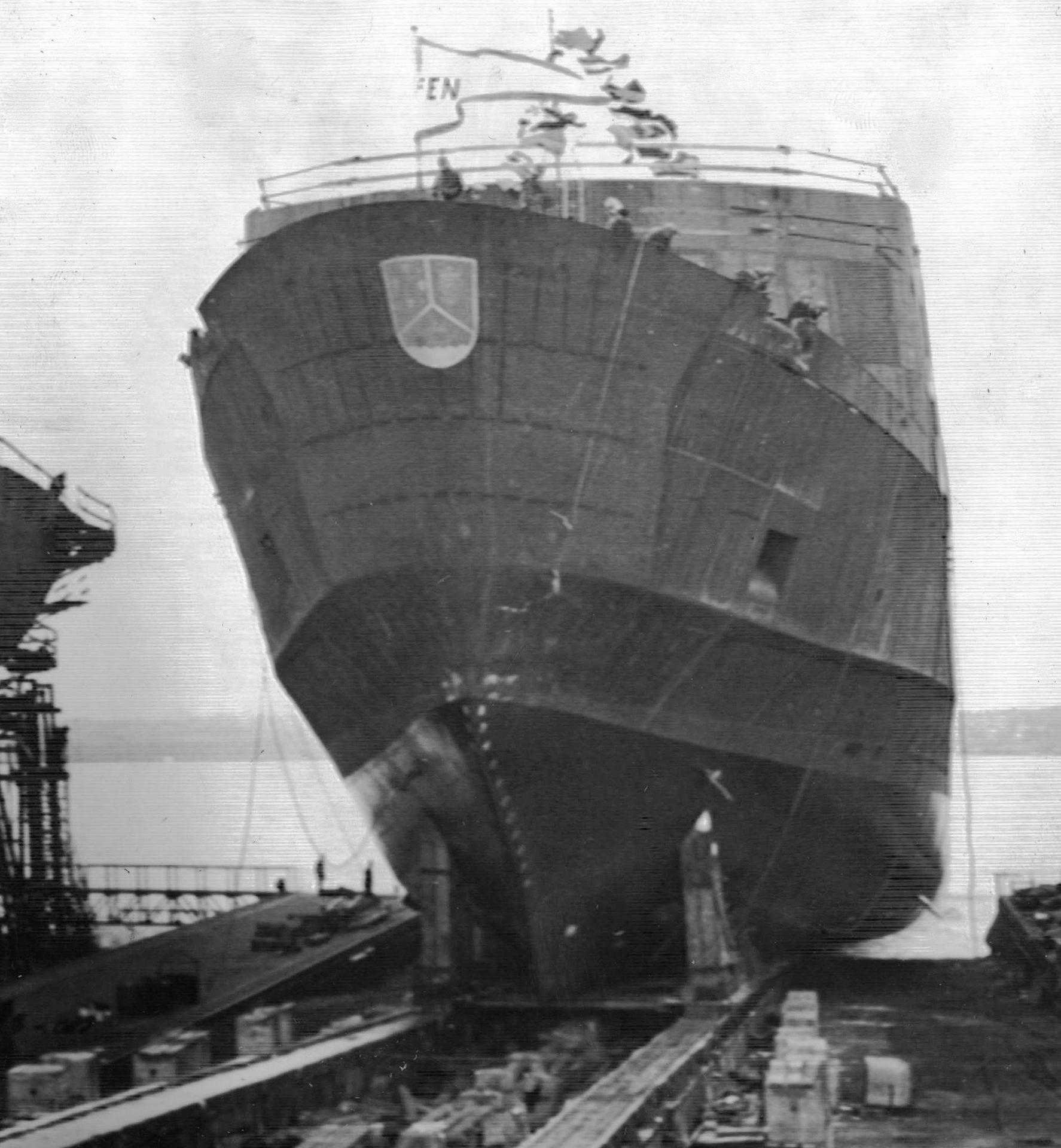 Photograph of M/S Fennia during construction (awaiting launching) at Öresundsvarvet, Landskrona, Sweden.